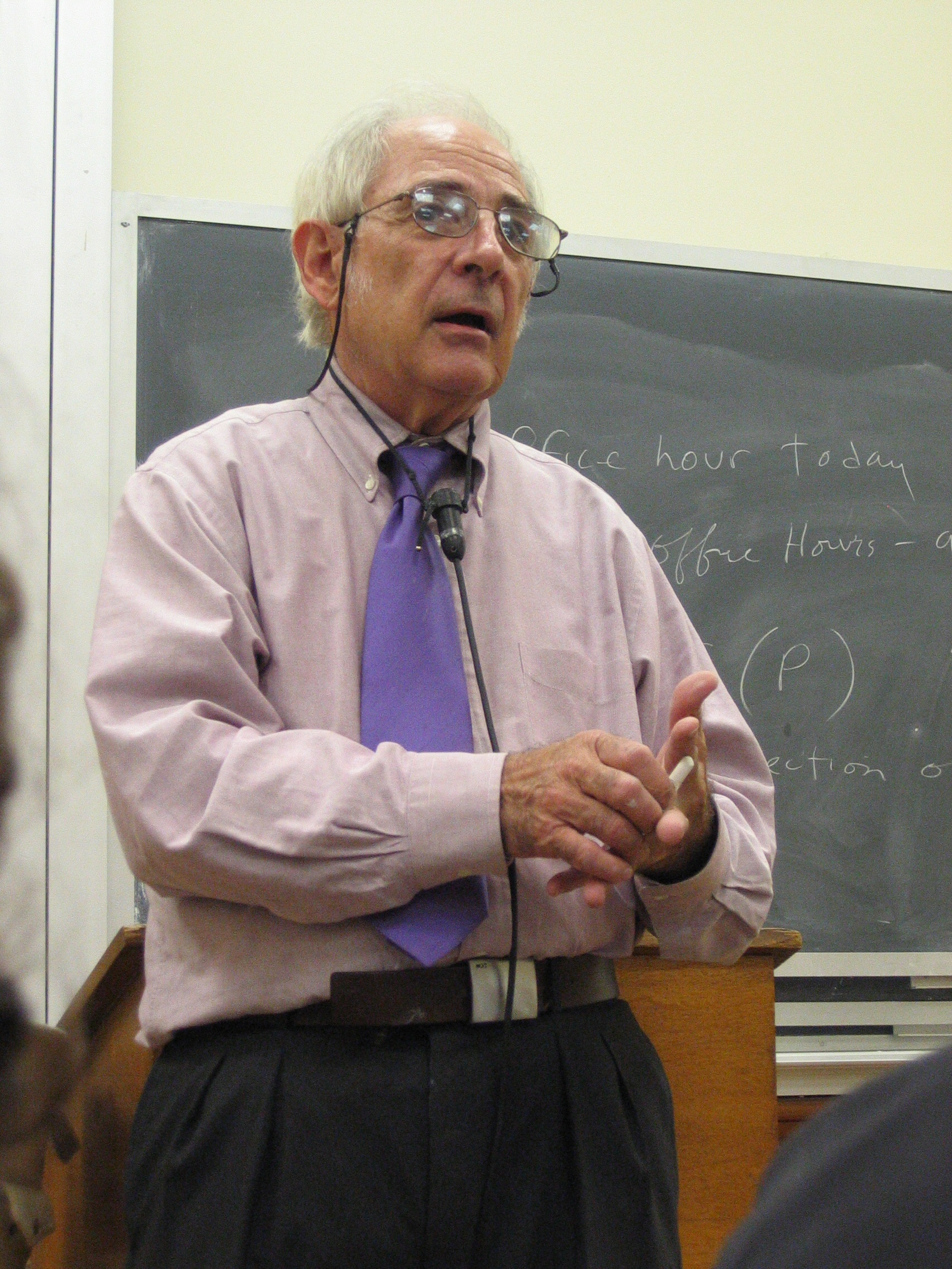 Photograph of John Searle at the Faculty of Christ Church, Oxford